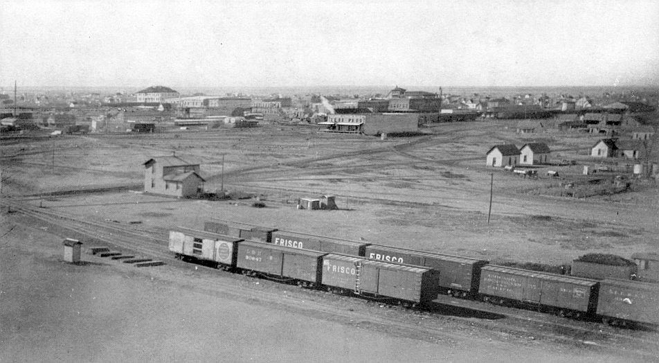 Title: Birdseye View, Quanah, Texas. Creator: Unknown Date: ca. 1920-1932 Part of: George W. Cook Dallas/Texas Image Collection Place: Quanah, Hardeman County, Texas Physical Description: 1 photomechanical print (postcard); 9 x 14 cm File: a2014_0020_3_3_c_0152_r_quanahbirdseye_opt.jpg Rights: Please cite DeGolyer Library, Southern Methodist University when using this file. A high-resolution version of this file may be obtained for a fee. For details see the web page. For other information, . For more information and to view the image in high resolution, see: View the George W. Cook Dallas/Texas Image Collection